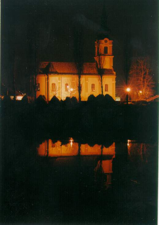 Srpska pravoslavna crkva [Serbian orthodox church], Vrbas Autor: Branislav Ivanovic